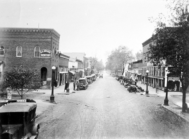 100 Block South Vine street looking South from railroad. Date: circa 1924